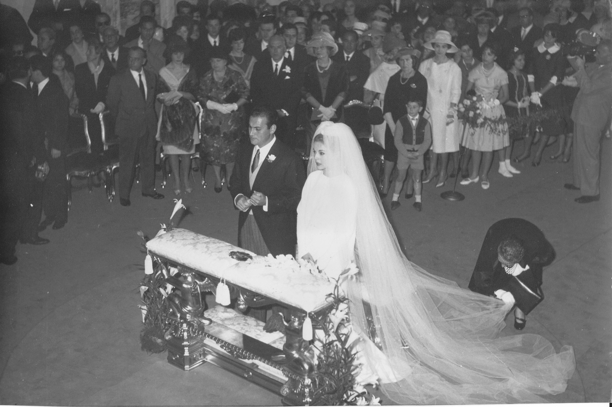 Virna Lisis' wedding with Franco Pesci. Church San Cesareo de Appia, in Rome.